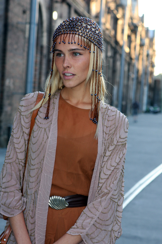 Isabel Lucas at the Asos Fashion Cocktail Party, 2011